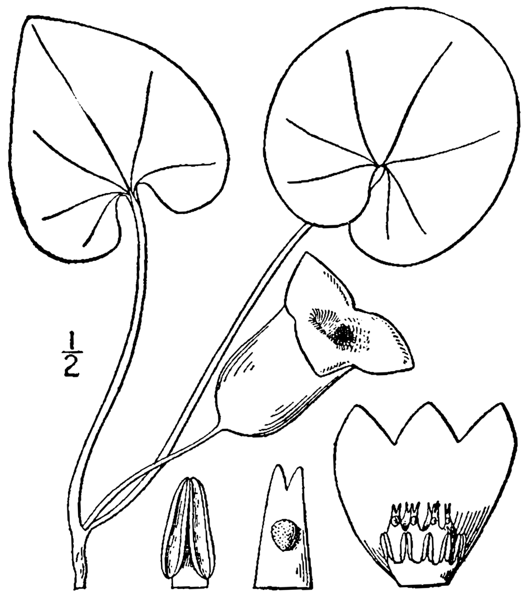 Hexastylis shuttleworthii (Britten & Baker f.) Small - largeflower heartleaf